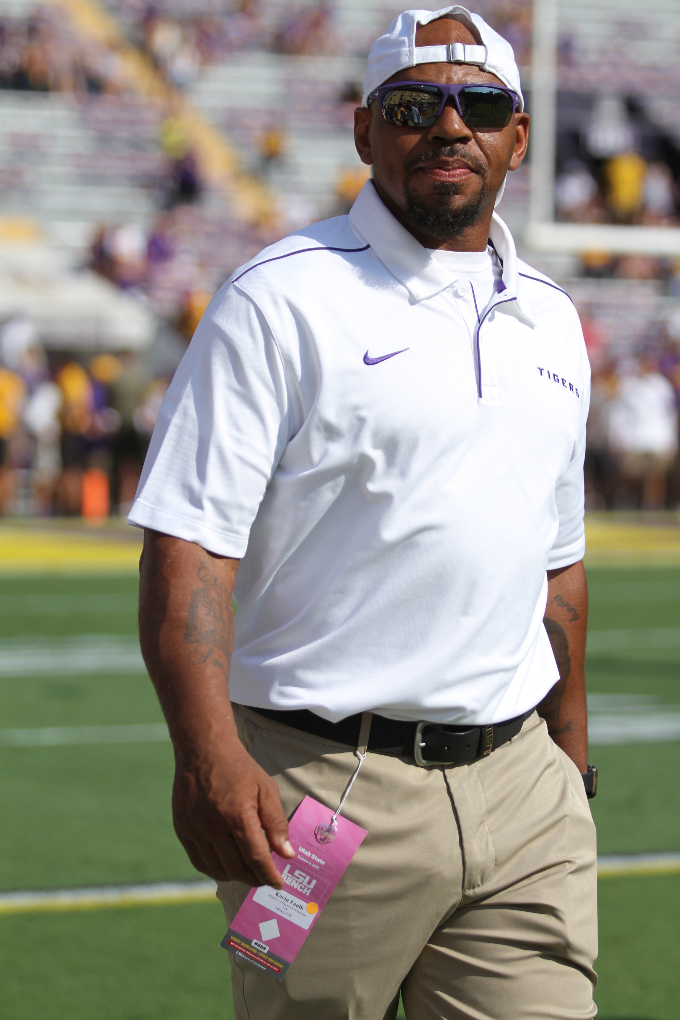 Kevin Faulk, Director of Player Development, leading rusher in LSU history and three-time Super Bowl Champion, LSU Tigers Football vs Utah State Aggies, Tiger Stadium, October 5, 2019, Baton Rouge, Louisiana, Tammy Anthony Baker, Photographer @tabinla @tmabaker @feezy_k